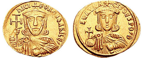 Nicephorus I and Stauracius. 802-811 AD. AV Solidus (4.43 gm, 6h). Constantinople mint. Struck 803-811 AD. :NICI-FOROS bASILE', crowned bust of Nicephorus, wearing chlamys, holding cross potent and akakia :STAVRA-CIS dESPOIX, similar crowned bust of Stauracius, holding globus cruciger and akakia. DOC III 2b.3; SB 1604.